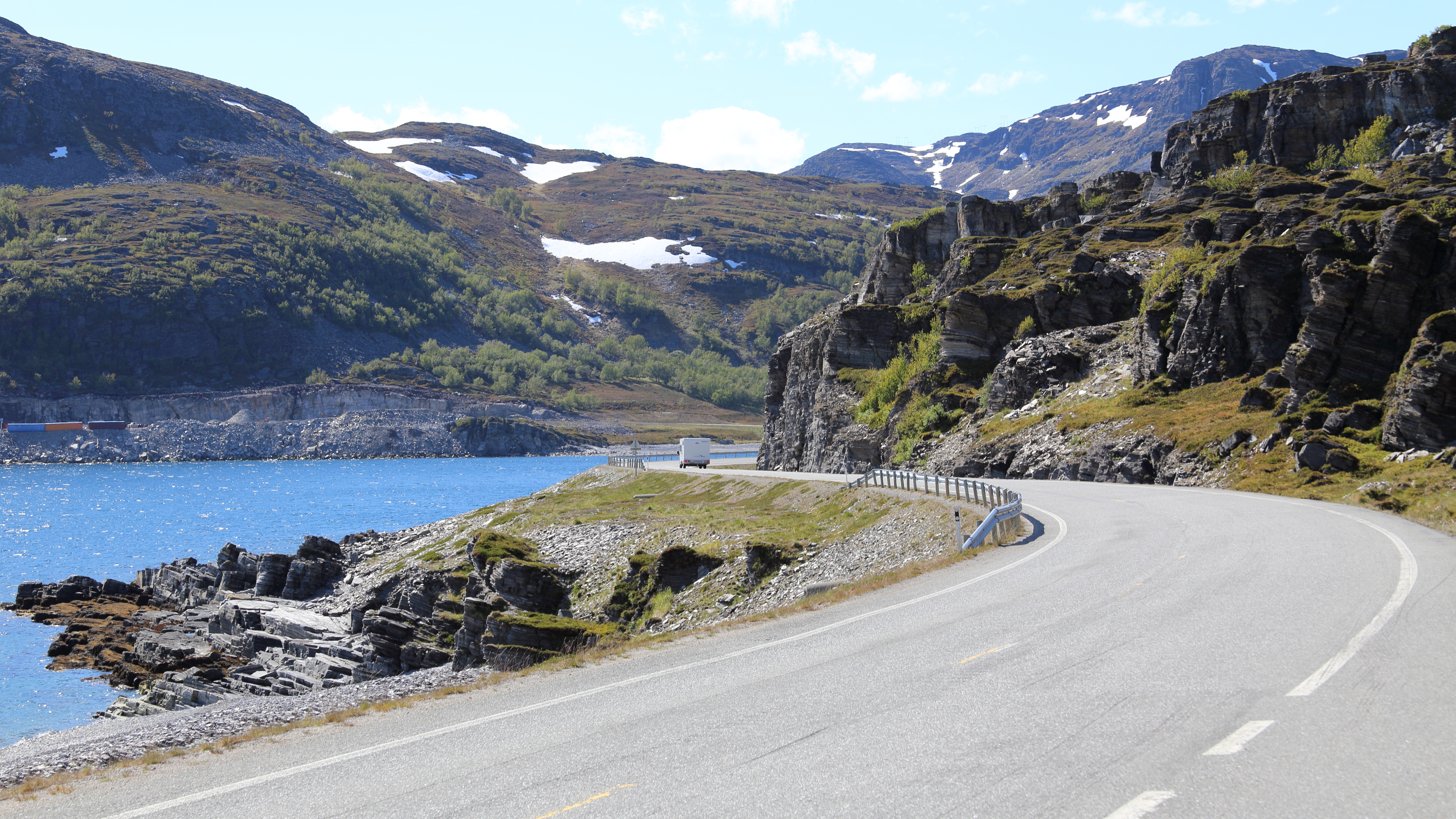 Roadside view of the European route E69, taken southbound from Magerøya, Norway.